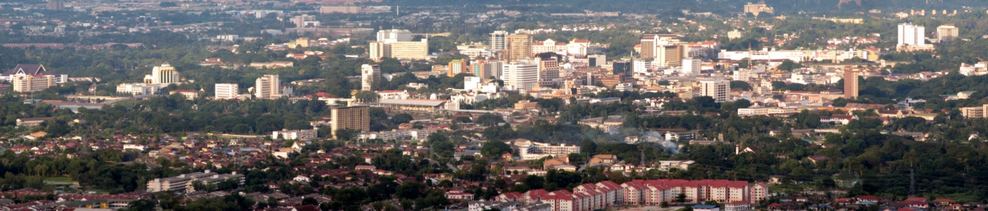 This is the aerial view of Ipoh City and its suburbs in Perak, Malaysia. The photos were taken at Keledang Hills.